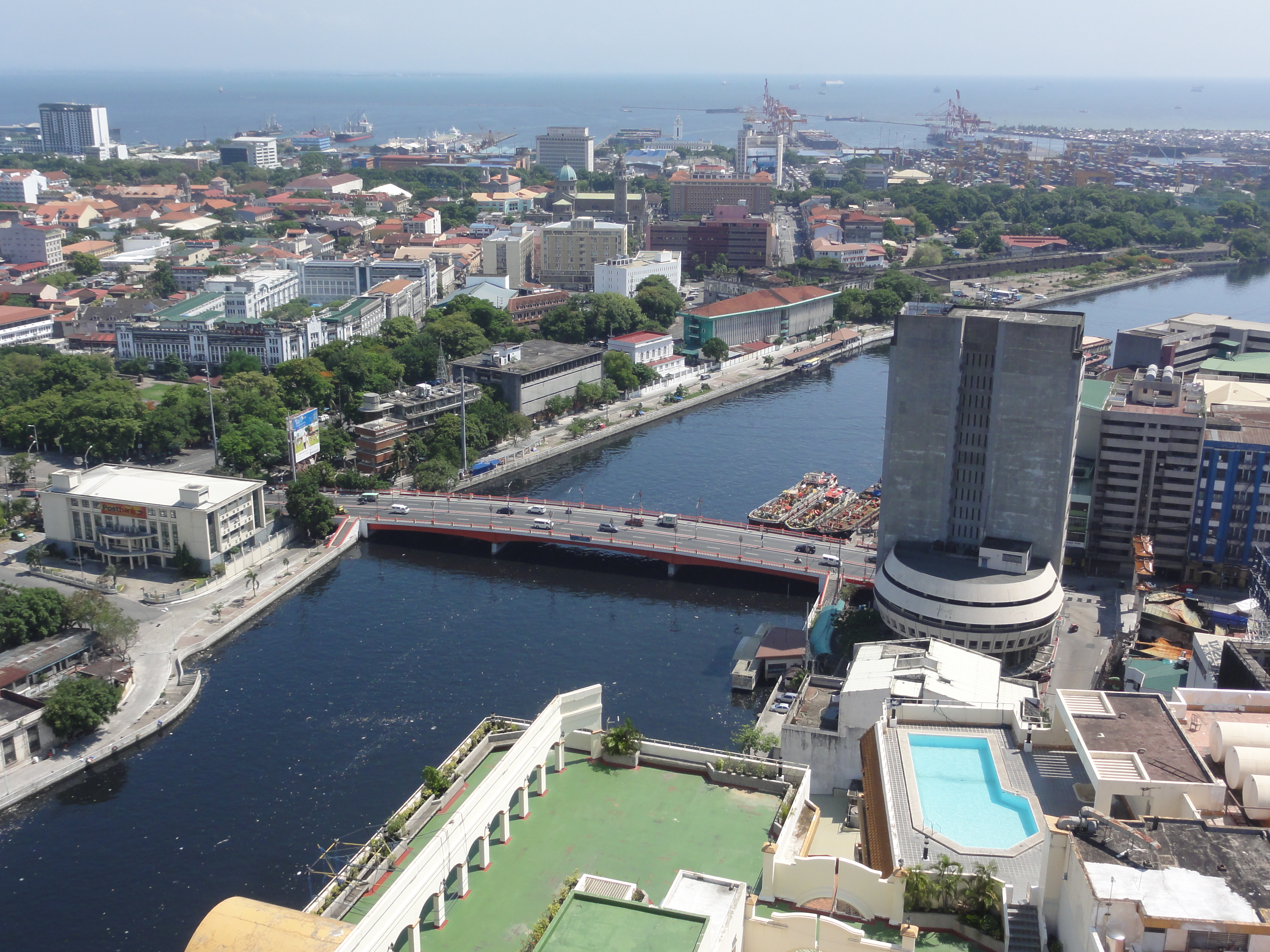 Top view of Jones Bridge along Pasig River, Manila as of June 2015. The bridge connects Binondo in the north and Emrita-Intramuros in the south.